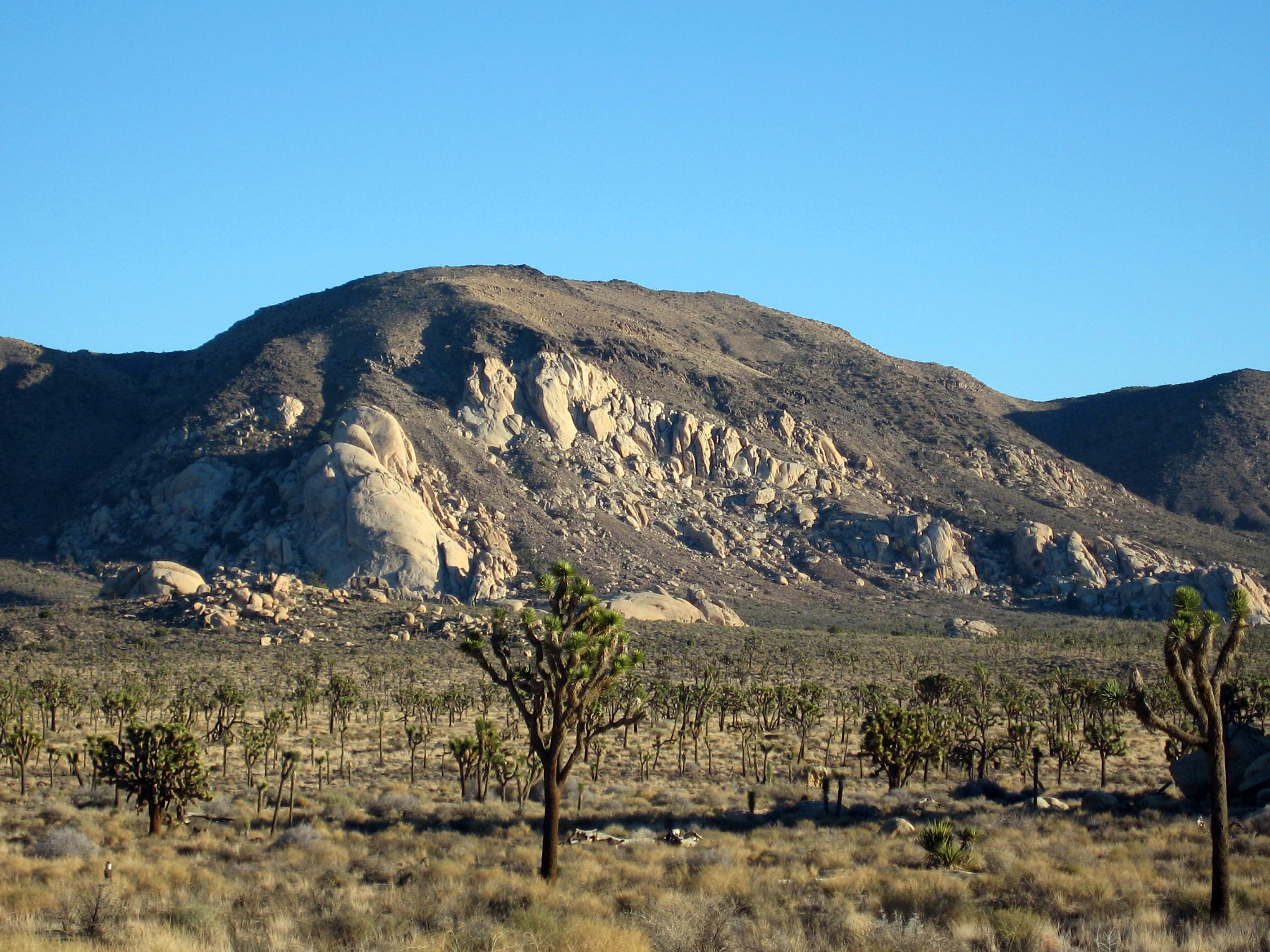 NPS/Robb Hannawacker